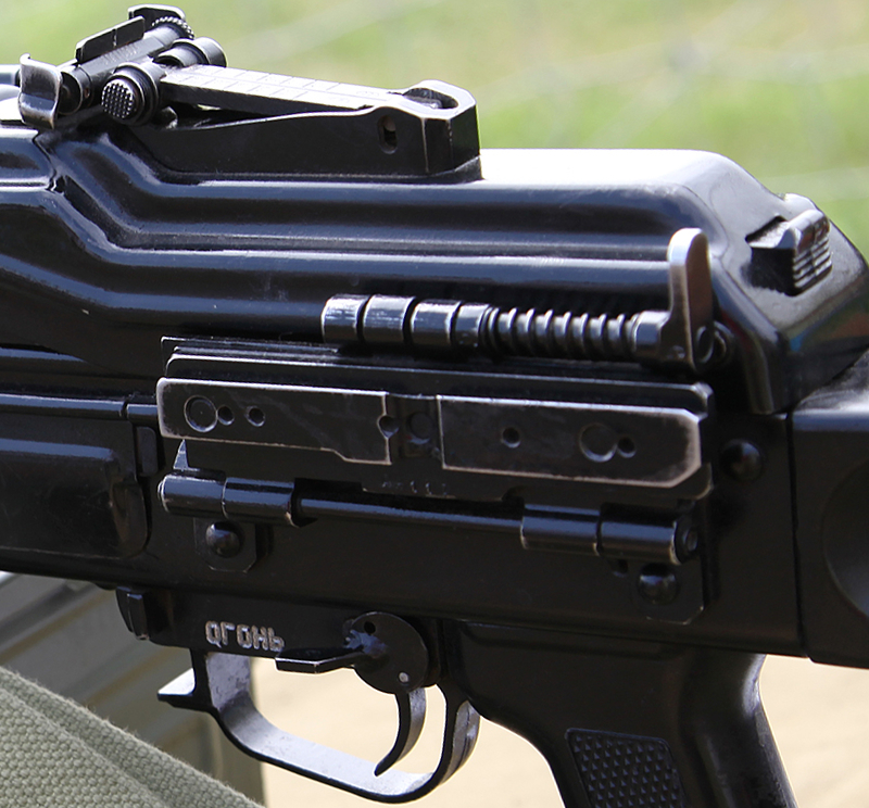 PKP Pecheneg machine gun - close-up of mounting rail for scope